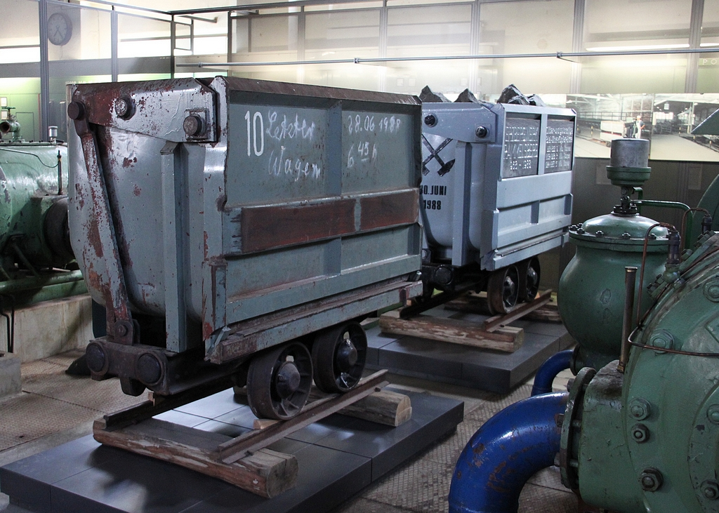 Goslar, Rammelsberg mine, UNESCO World heritage site, last minecart (26th June 1988, 6.45 a.m.).